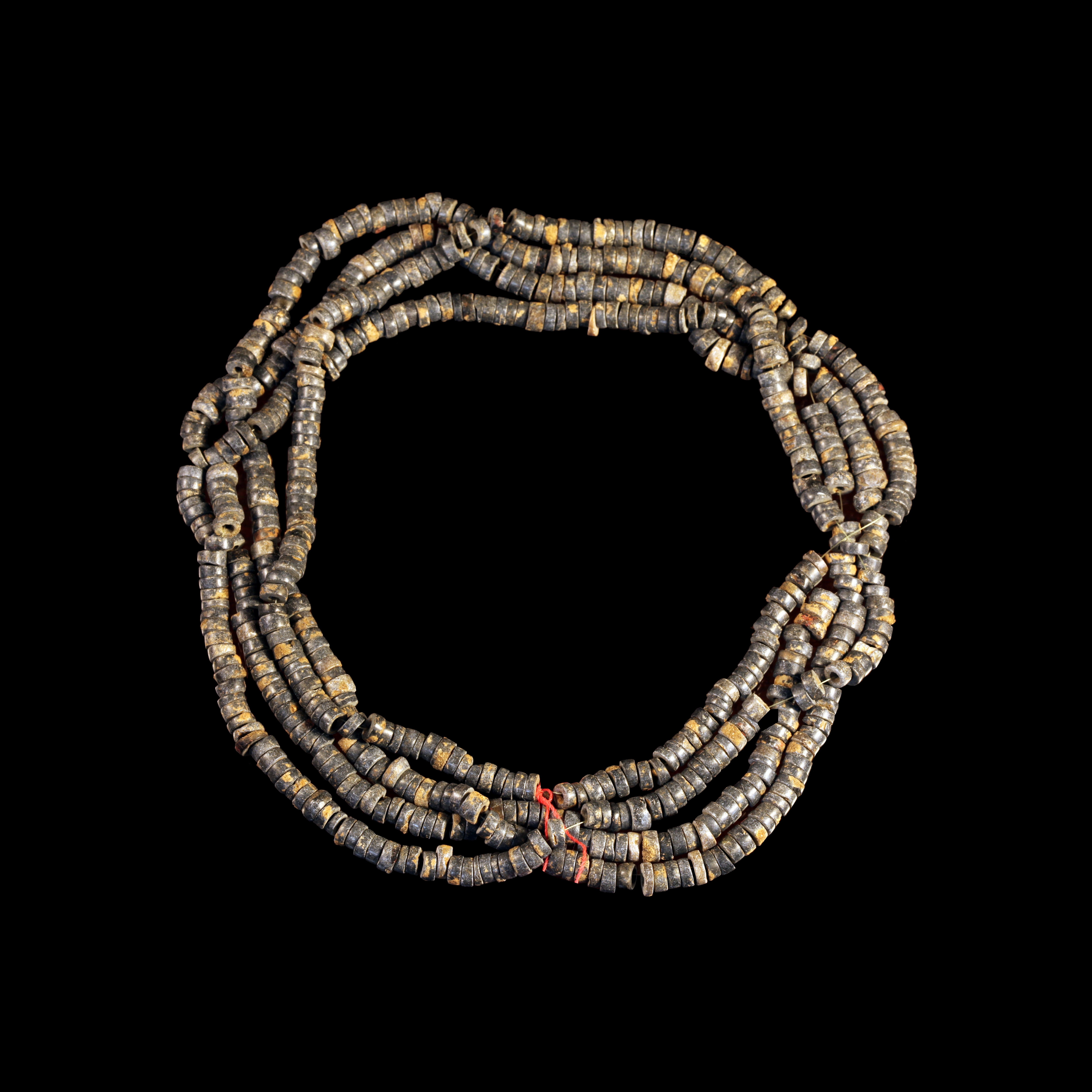 Neolithic necklace, calibrated discoid talc pearls